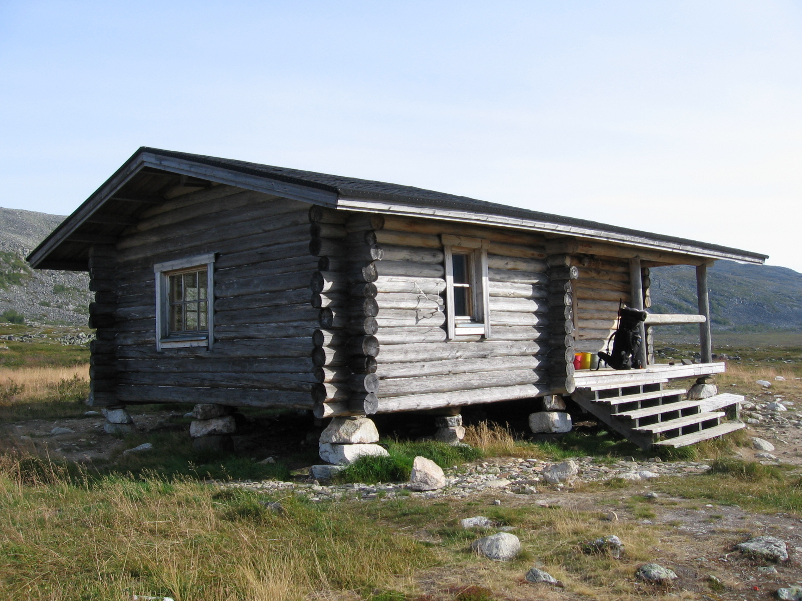 Termisjärvi Wilderness Hut at Kilpisjärvi, Enontekiö, Finland